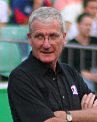 Bob Willis at Taunton Cricket Ground